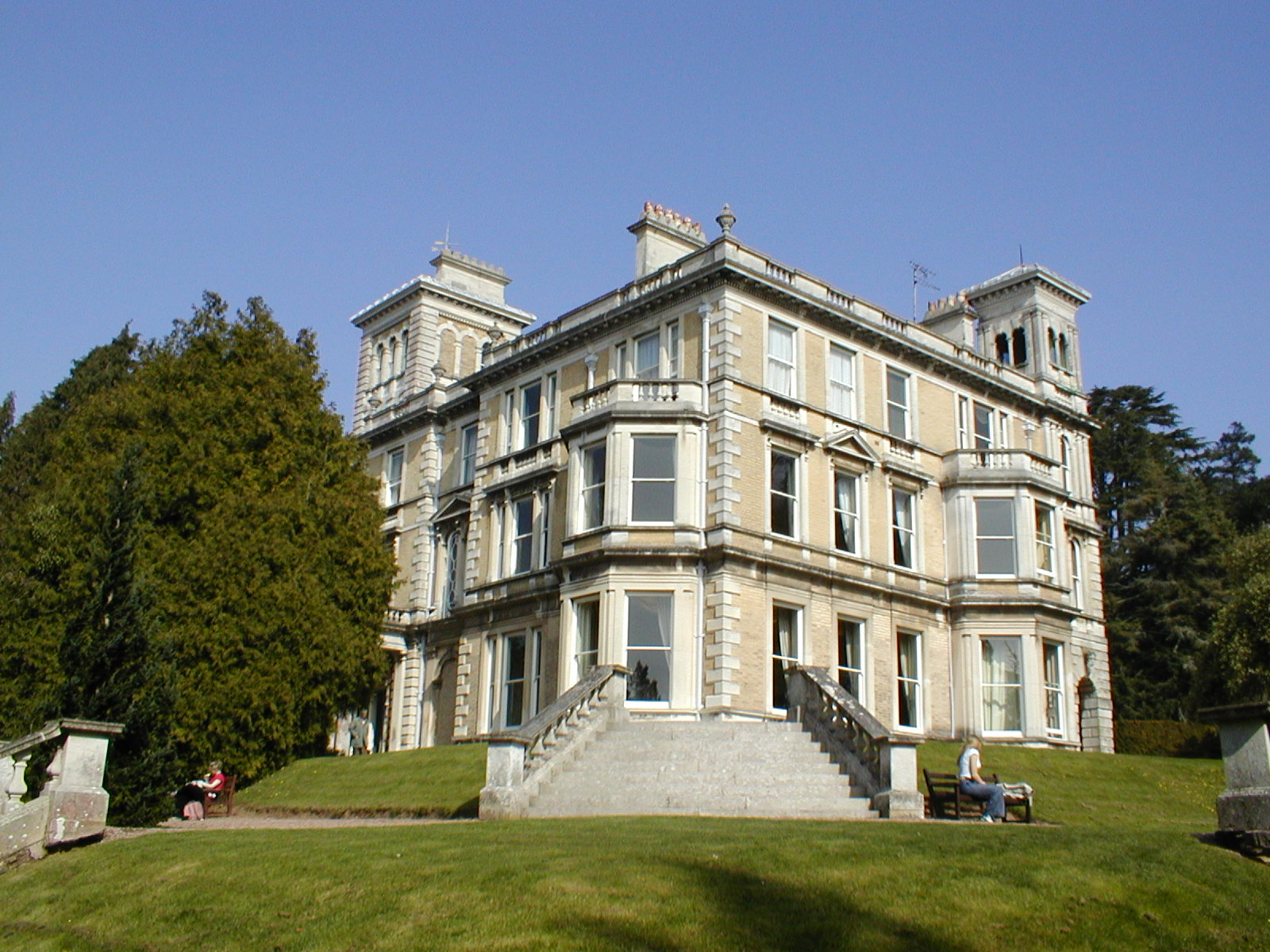 Reed Hall, University of Exeter